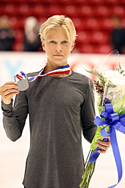 Stephen Gogolev at the 2019 JGP Lake Placid - Awarding ceremony